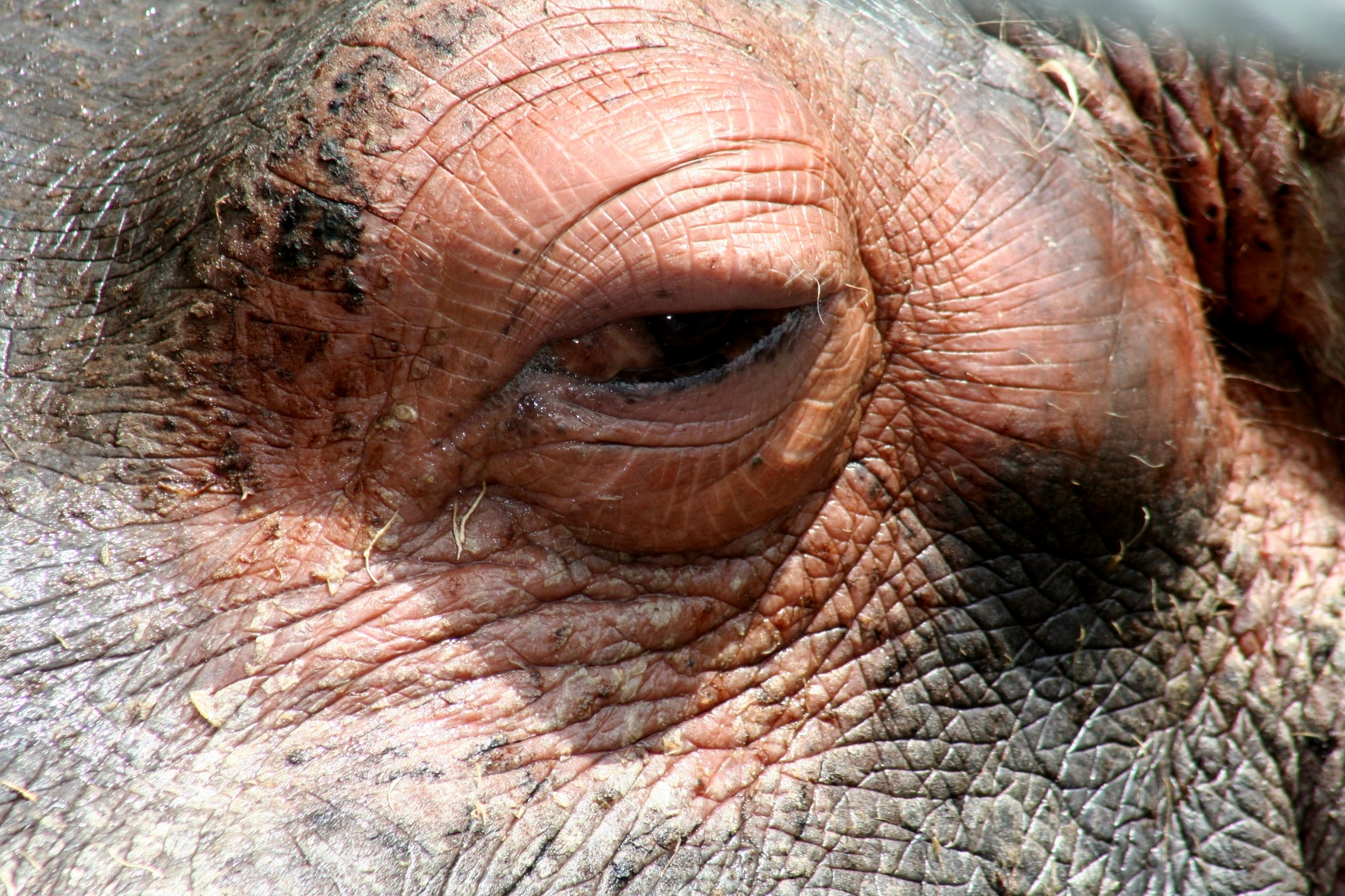 An eye of a Hippo